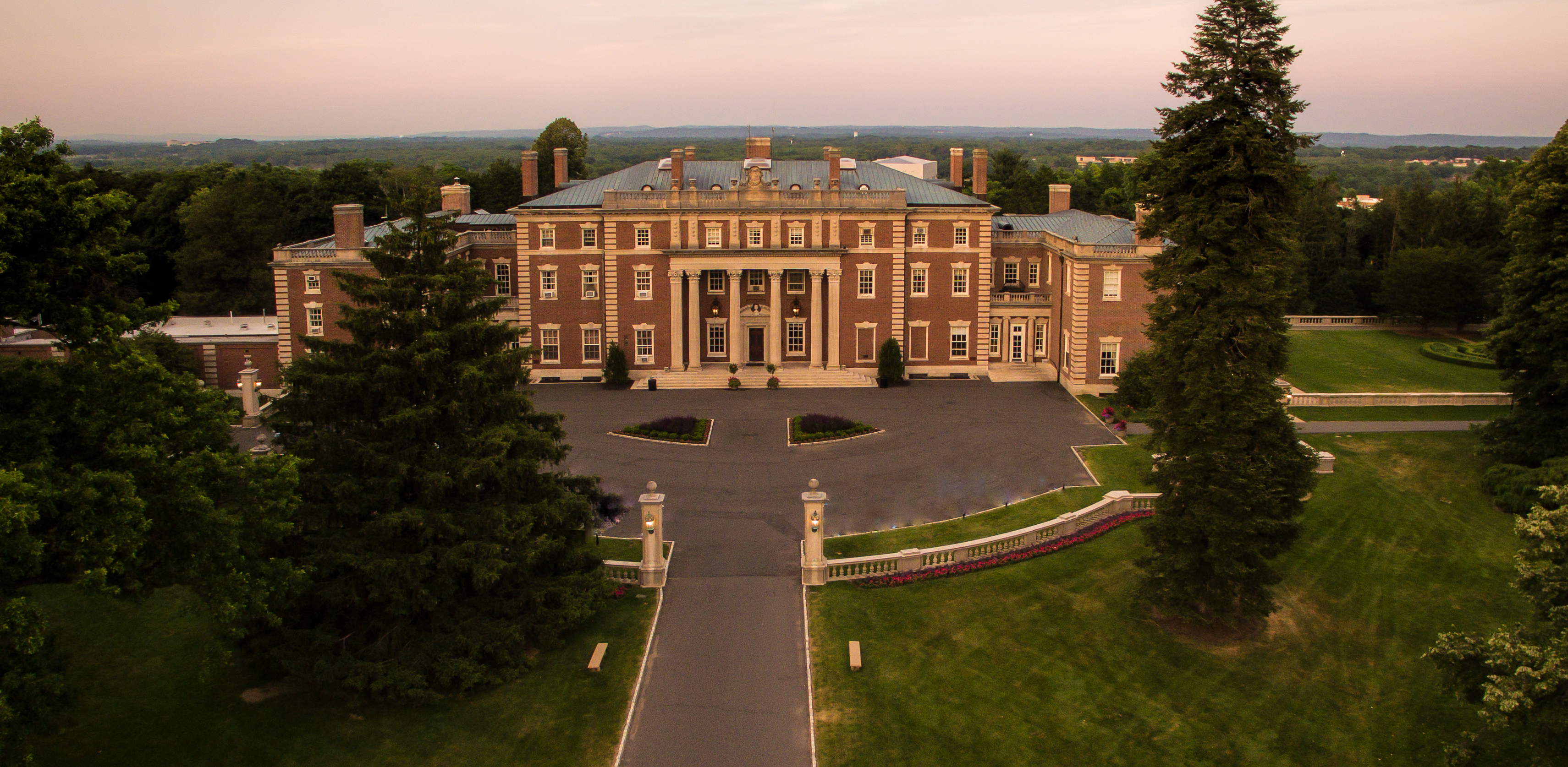 Florham Park, Madison, New Jersey (Morris County), about 25 miles due west of Manhattan. Country estate of Hamilton Twombly and his wife Florence Vanderbilt, and their heirs (ca. 1895-1955). Designed by McKim, Mead, & White, gardens and grounds by Frederick Law Olmsted. Sold by heirs in 1955 and campus of Fairleigh Dickinson University since 1958.